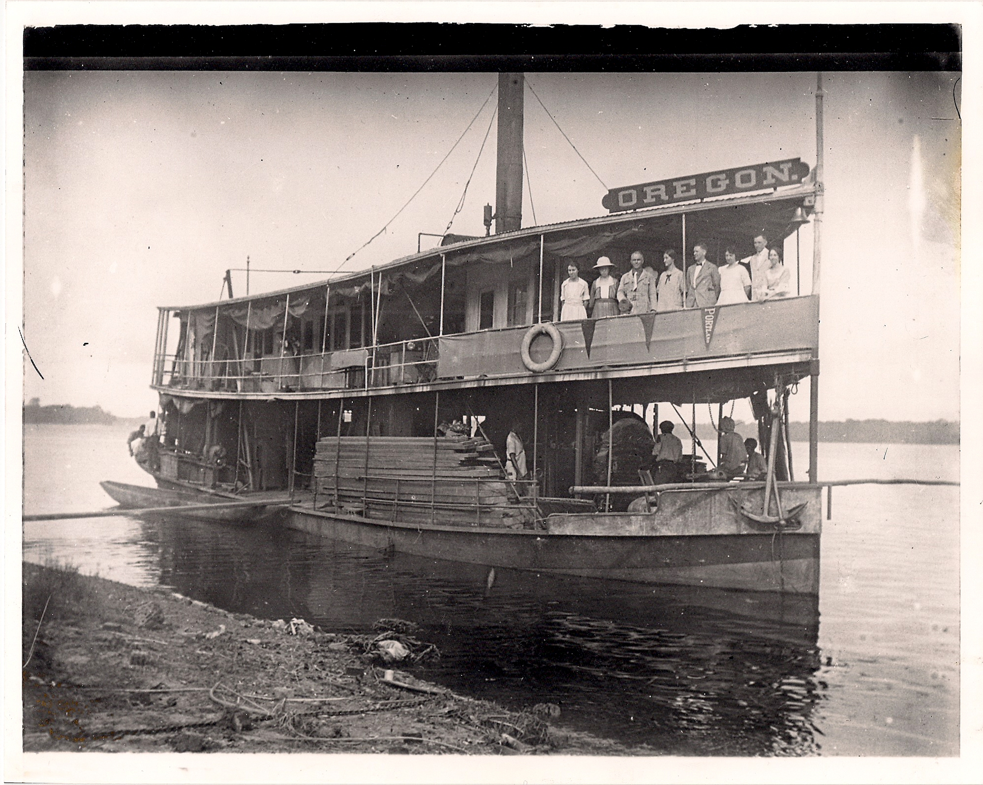 SS Oregon steamship in Belgian Congo